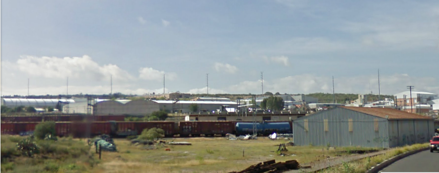 Vista Parcial del Parque Industrial Nuevo San juan